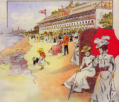 Advertisement for Hotel Marienlyst in Helsingør, Denmark